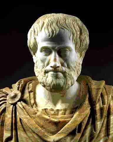 Wp/xmf/